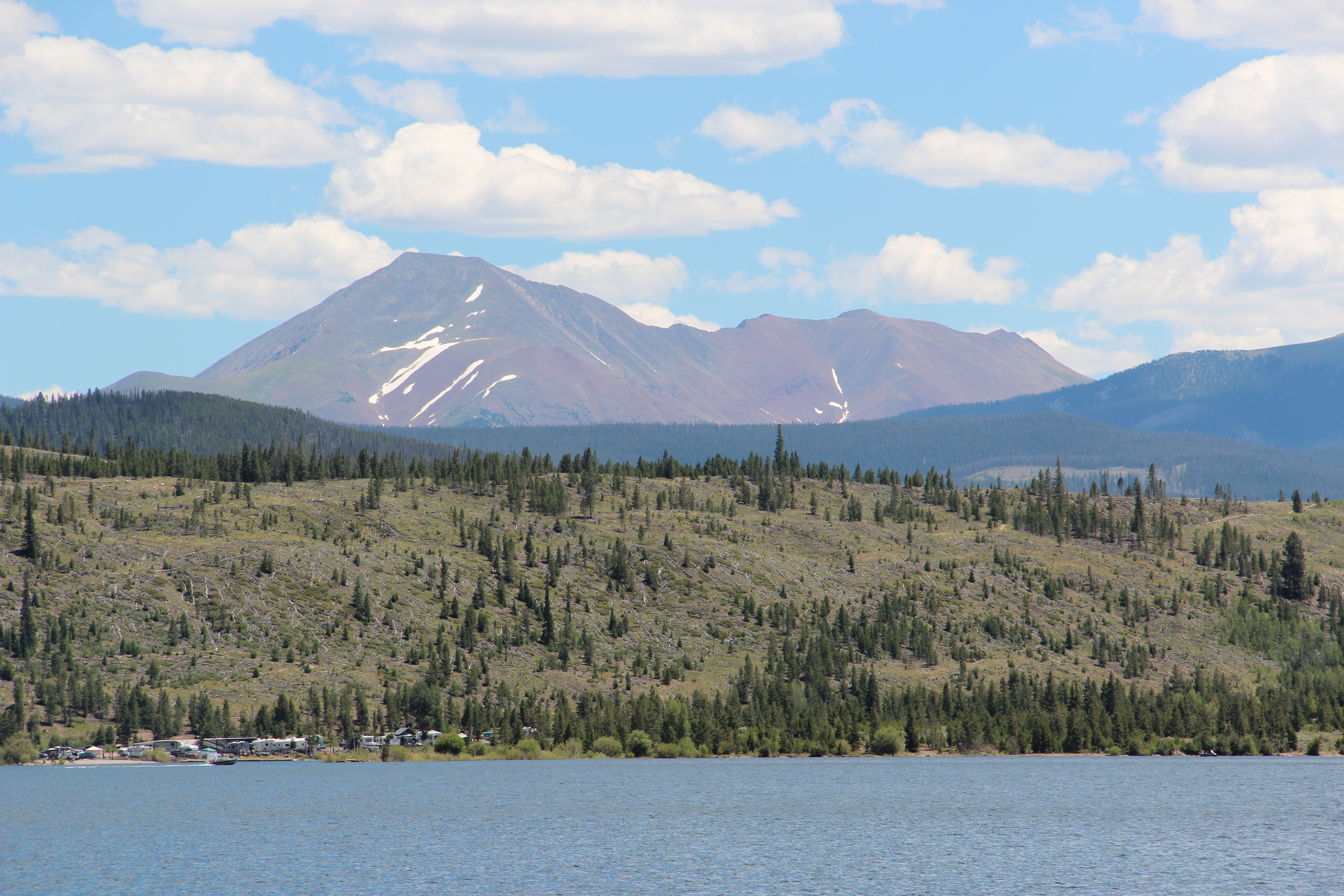 Mount Guyot (Colorado) viewed from Dillon Reservoir, July 2016